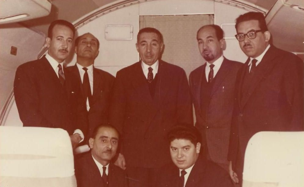 From left (standing): Abdel Moula Langui, Hussein el-Ghannai, Mahmud al-Muntasir, Fouad Kabazi, Kalifa Tillisi. From left (seating):Ahmed Sweideg, and Bashir as-Sunni al-Muntasir.